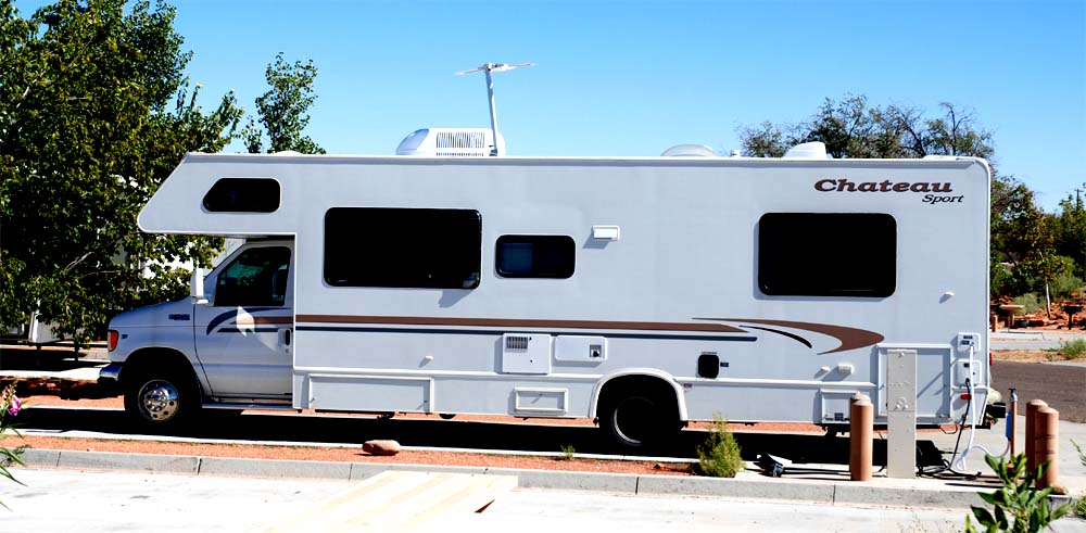 Author: Bill Wight